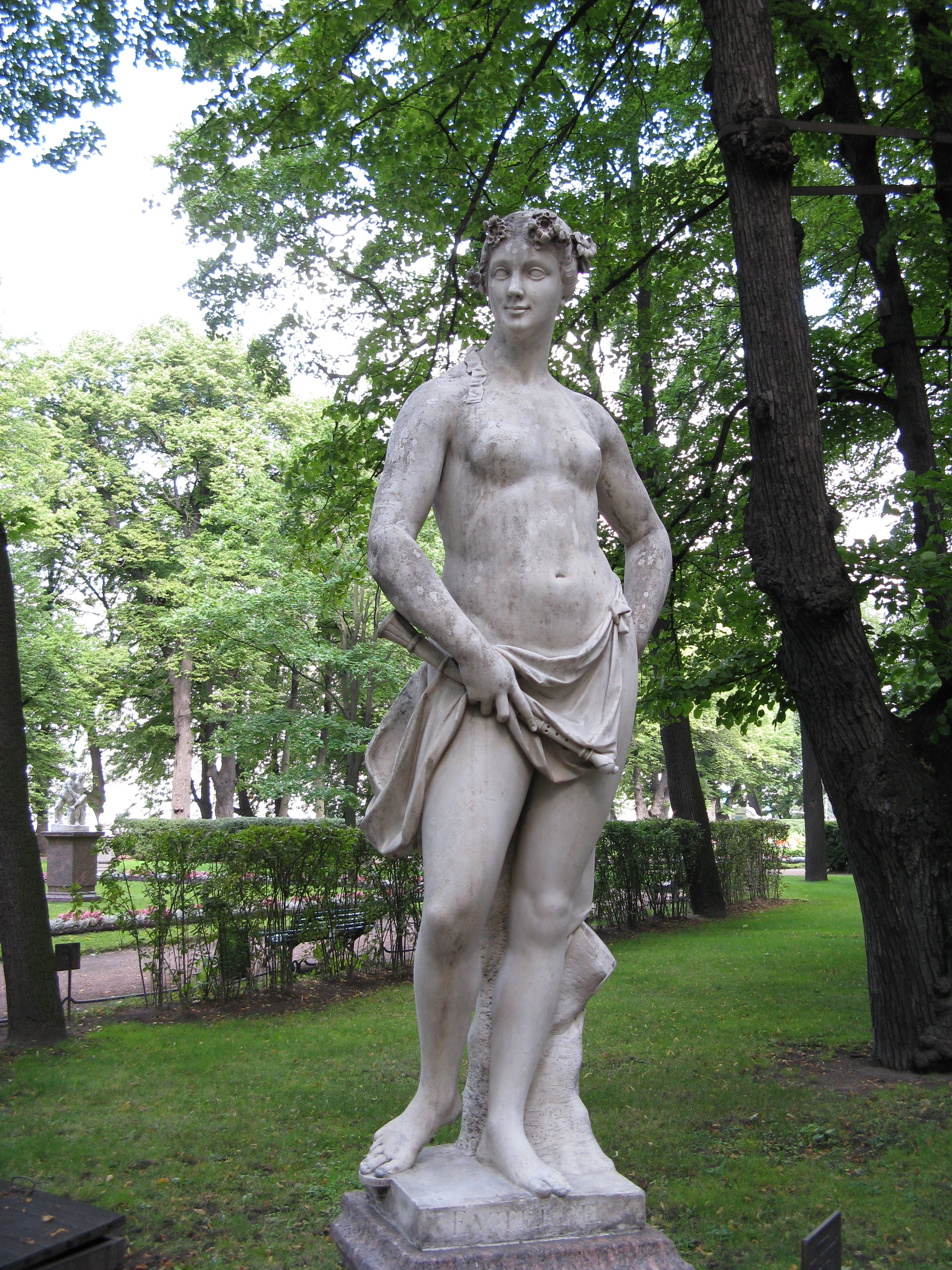 Euterpe by Gropelli 1722 at Summer Garden.